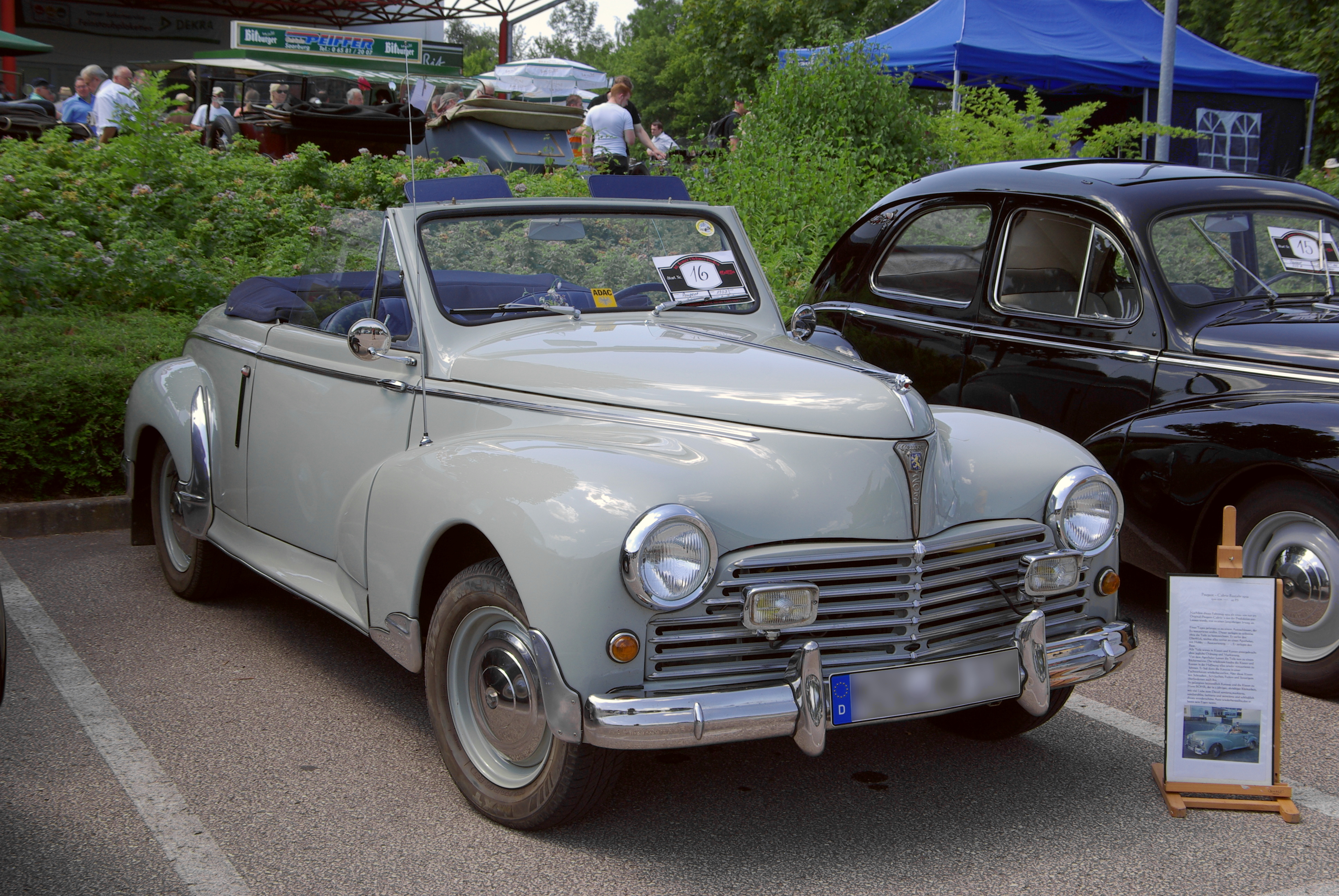 Peugeot 203 Cabrio, 1954, 1300 cm³, 45 PS, 29. Internationales Oldtimer-Treffen, Konz